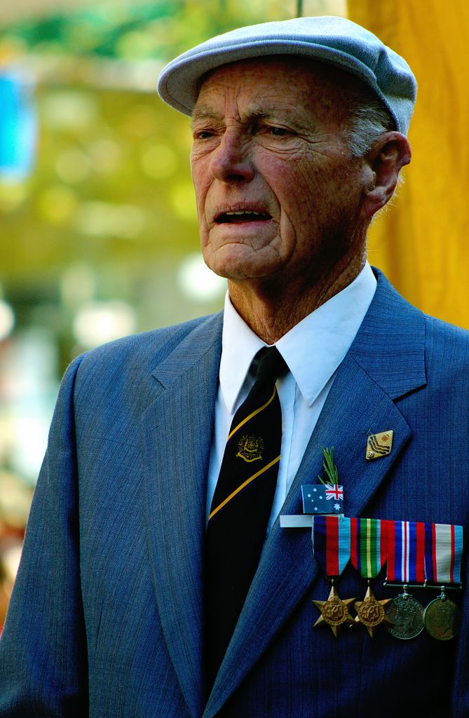 An Australian military veteran on ANZAC Day 2007.